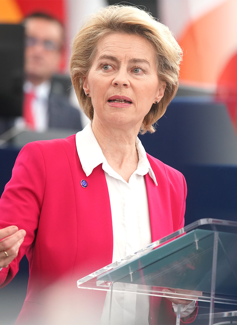 Most MEPs urged European Council President Charles Michel to ensure that the EU long-term budget reflects the climate neutrality goals agreed during the December summit. During the debate on the results of the 12-13 December EU summit with Council President Charles Michel and Commission President von der Leyen, political group leaders representing a majority in Parliament welcomed the decision on the EU’s long-term climate strategy that would lead to the EU becoming climate neutral by 2050. However, they heavily criticised the European Council’s unwillingness to agree to a viable solution on the 2021-2027 EU budget, which will need to provide appropriate funding not only for its traditional beneficiaries (citizens, regions, cities, farmers, researchers, students, NGOs and businesses), but also for the 2050 climate neutrality goals and the European Green Deal. Many speakers asked for either the European Union’s own resources mechanism or the decision-making at Council level to be reformed, or both, to enable the EU to address key challenges on which no progress appears to be possible under current rules. This photo is free to use under Creative Commons license CC-BY-4.0 and must be credited: "CC-BY-4.0: © European Union 2019 – Source: EP". No model release form if applicable. For bigger HR files please contact: webcom-flickr(AT)